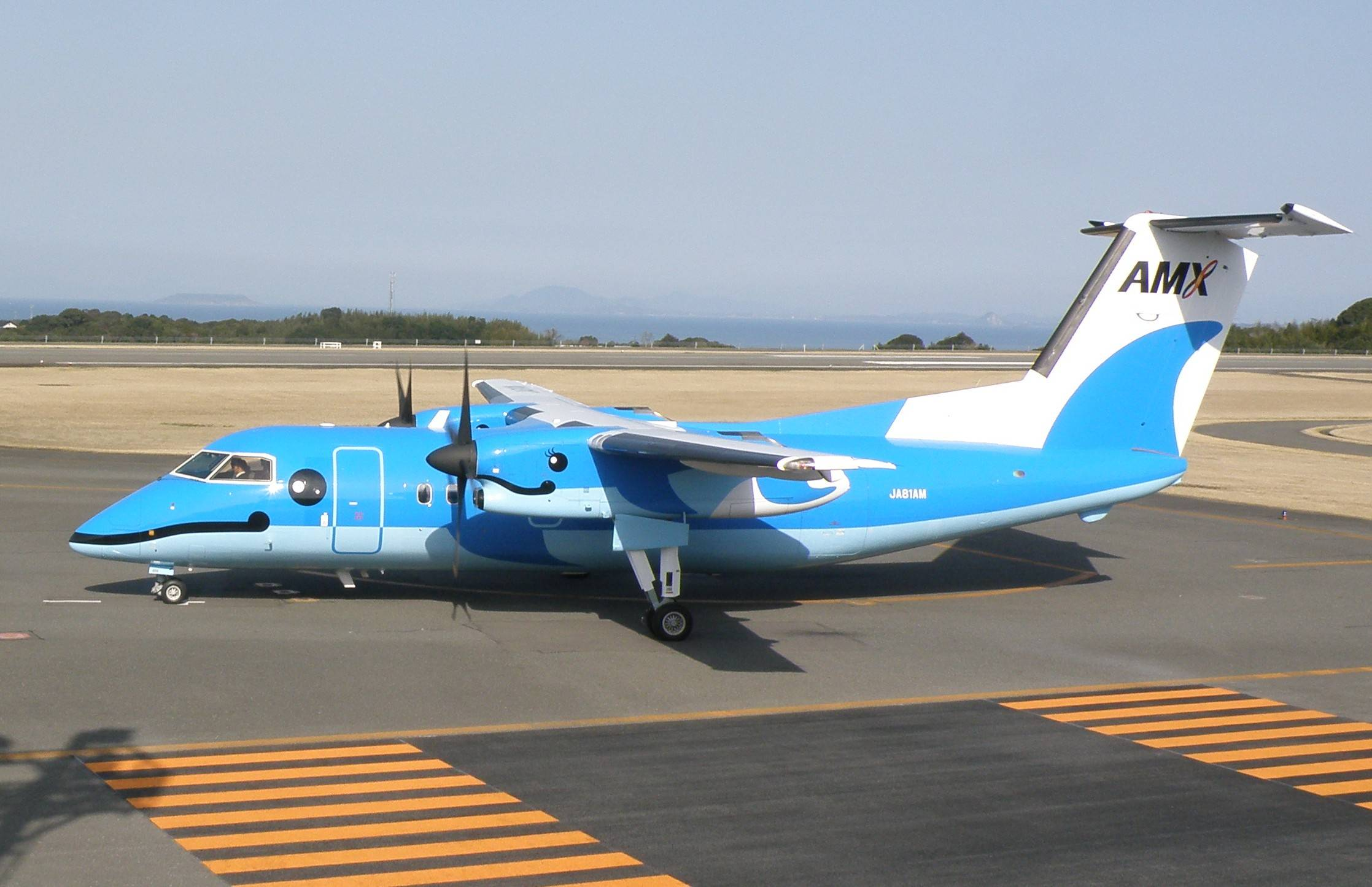 Amakusa-airline Type Dash 8-100 New color